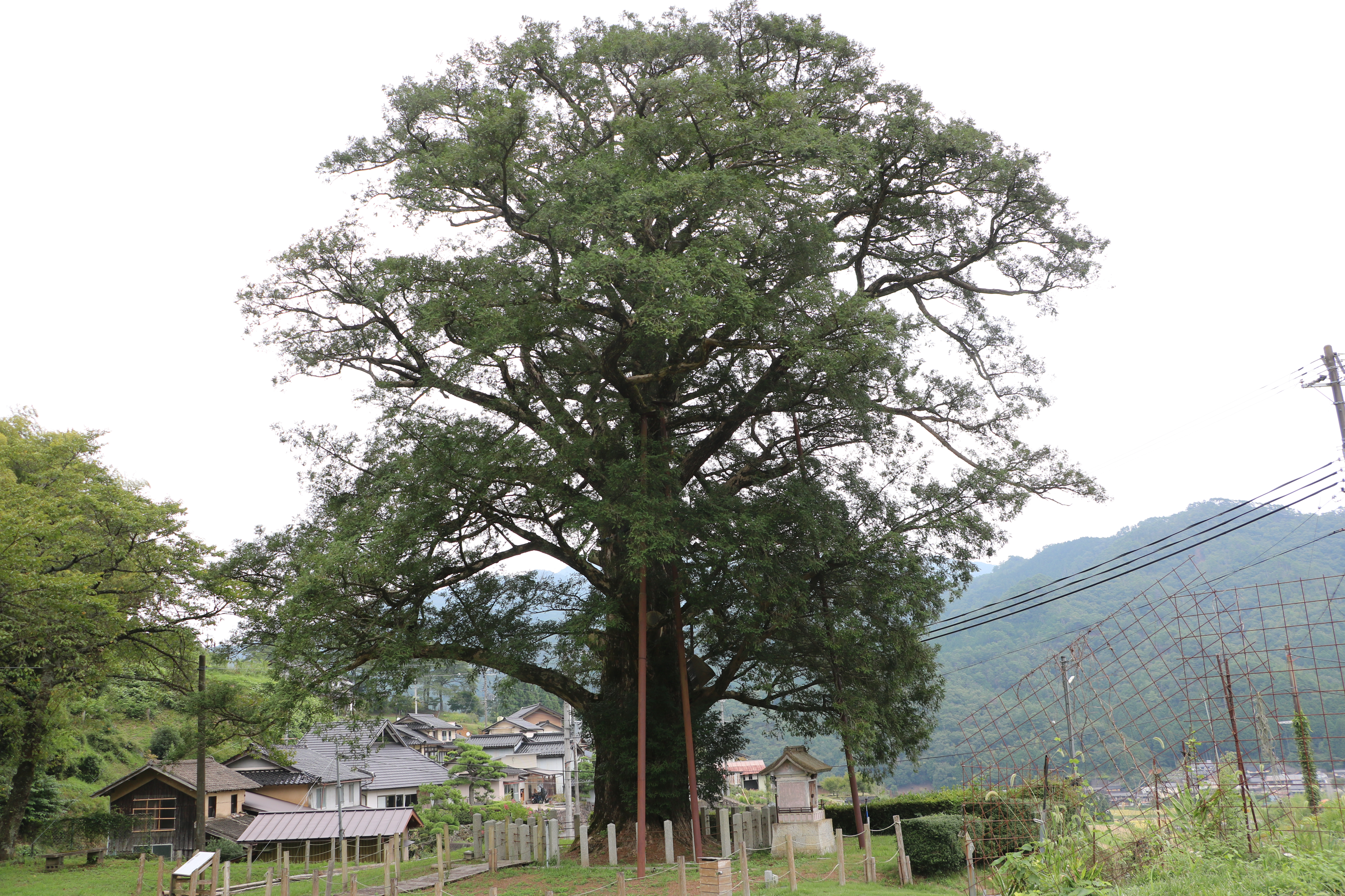 Takinoya no Hidarimakigaya tree.